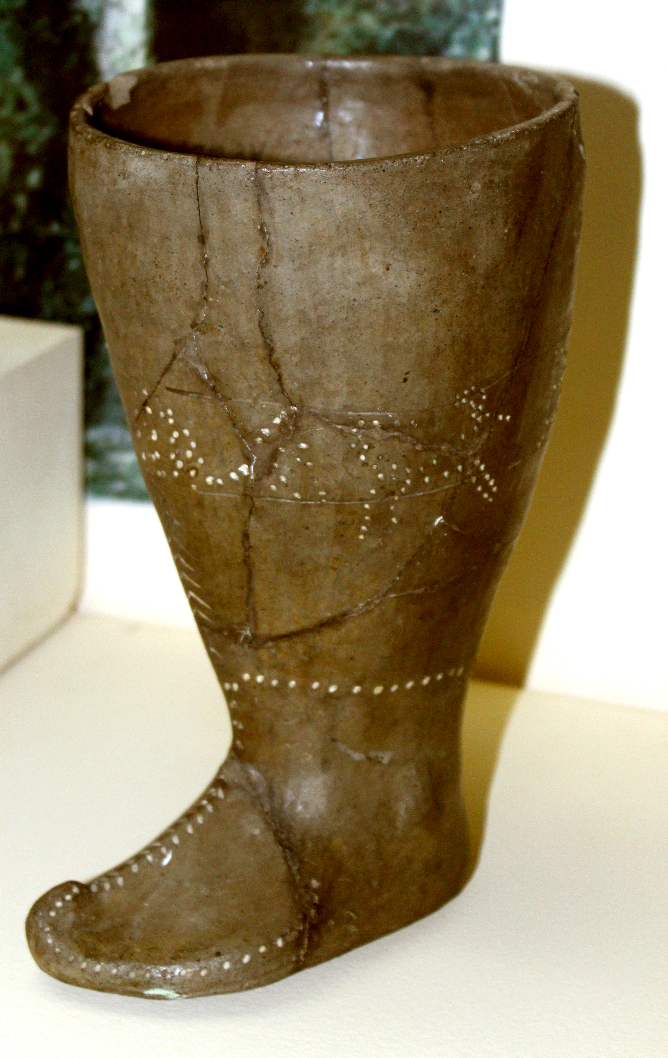 Ayaqqabı formalı gil qab, Mingəçevir